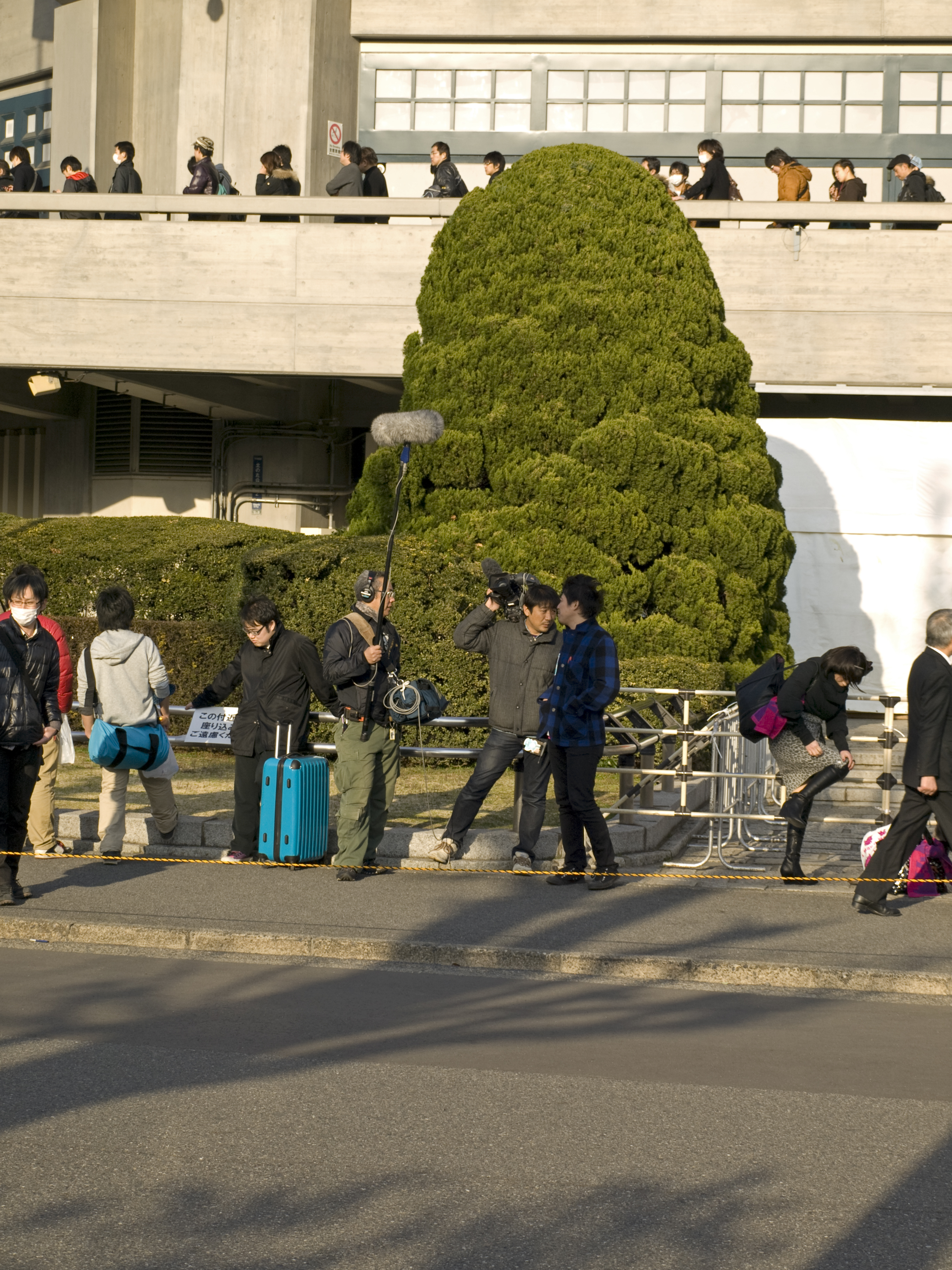 The TV team (front) and the queue (back) for the May'n solo concert Mic-a-Mania, Mar 2, 2013, in Nippon Budokan, Tokyo